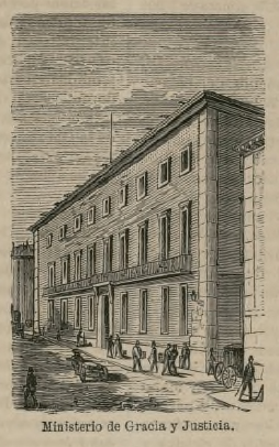 Ministerio de Gracia y Justicia, Madrid.